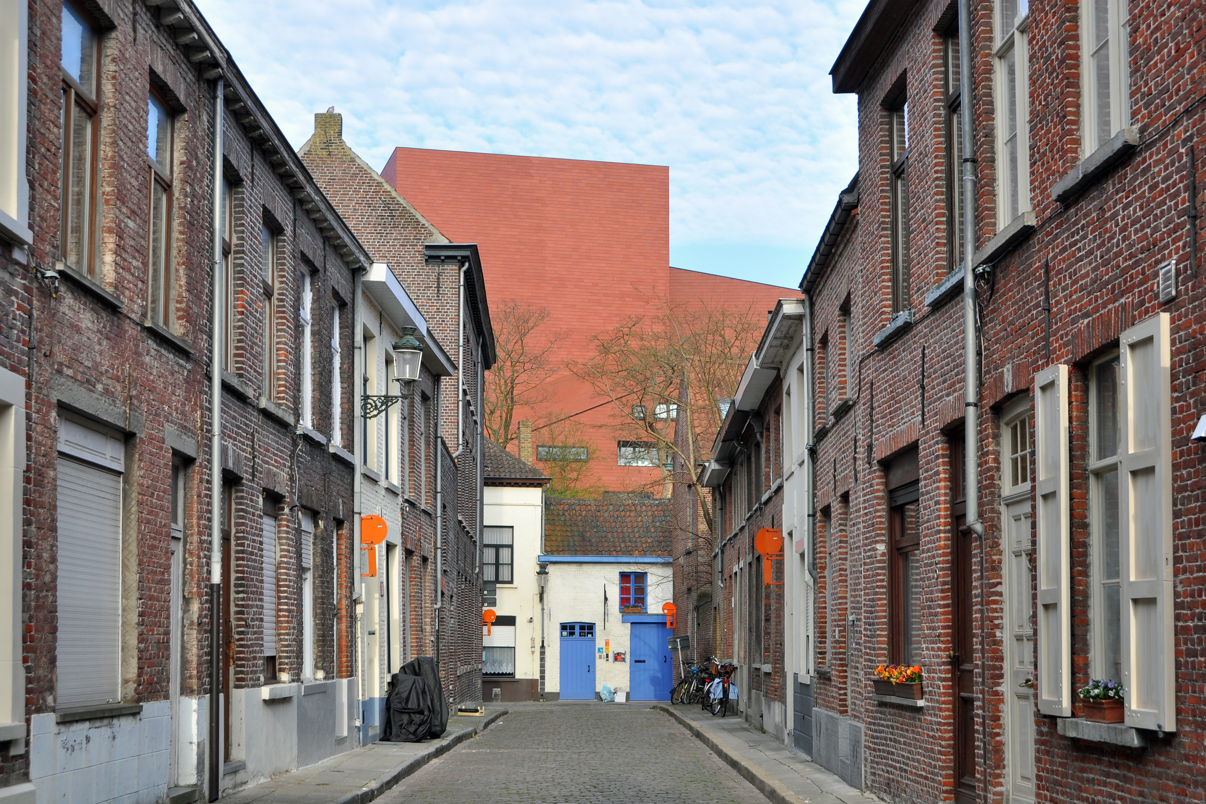 Bruges (Belgium): Bakkersstraat